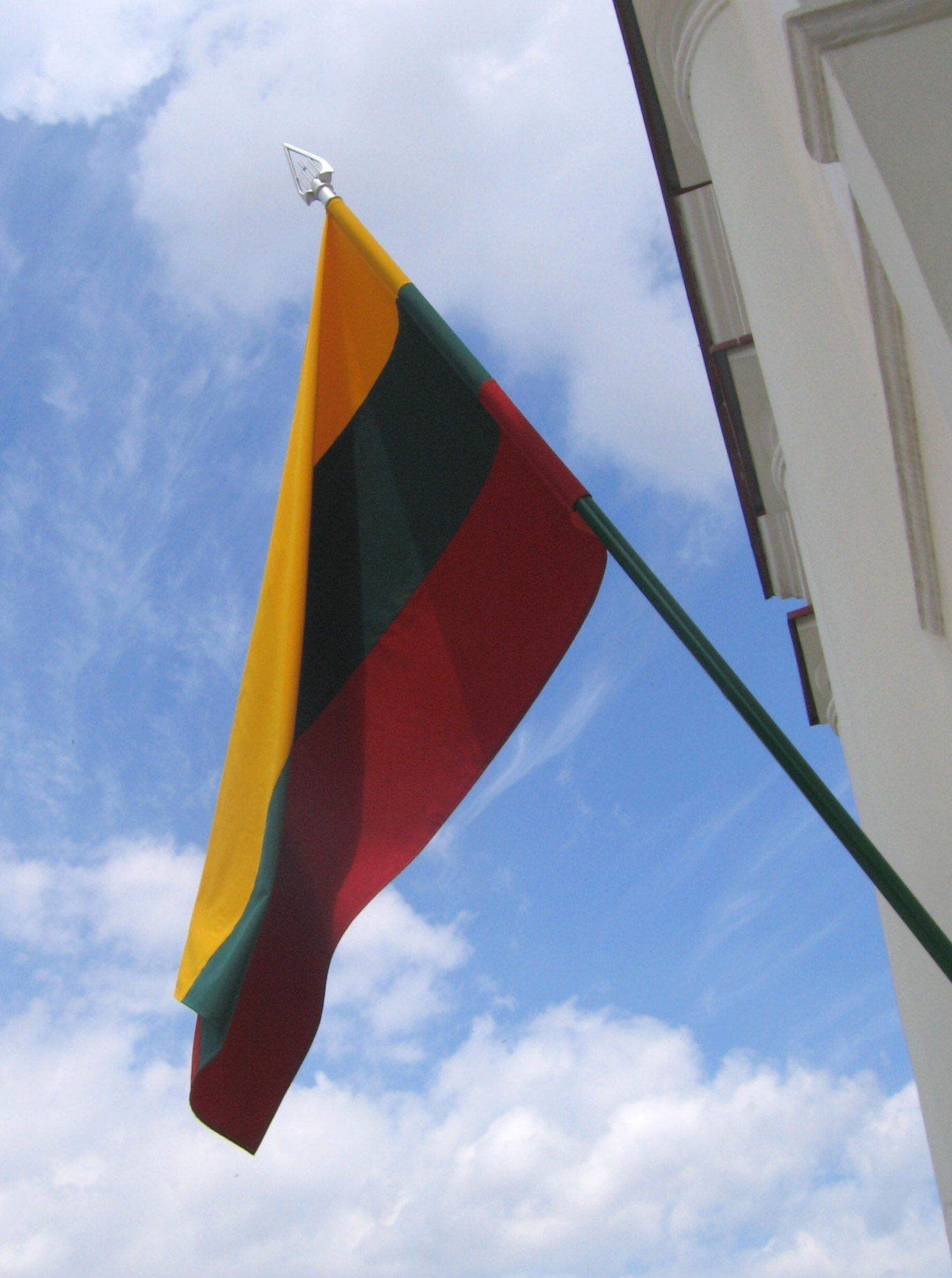 Flag of Lithuania 2007 July 15